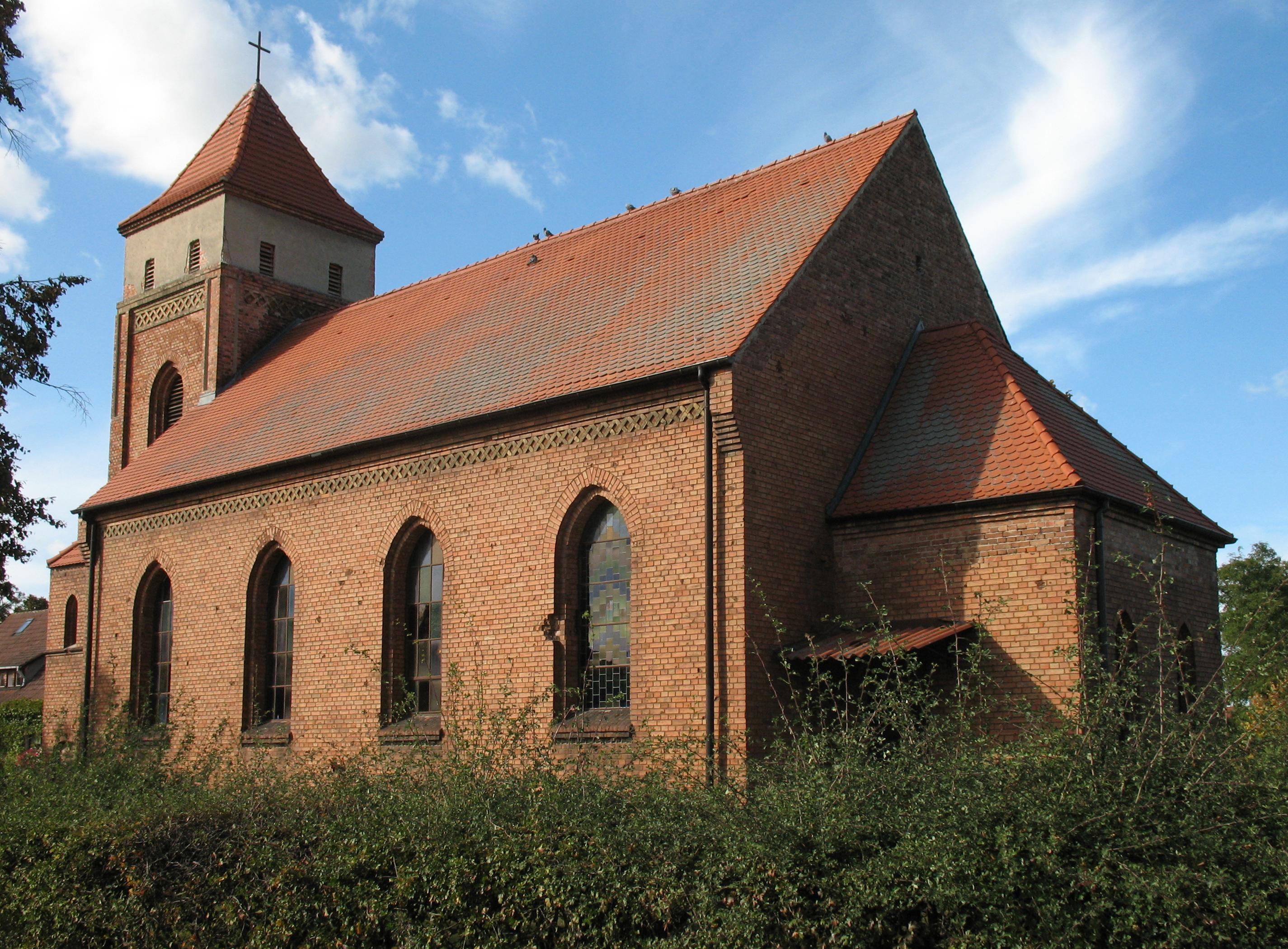 Church in Bliesdorf in Brandenburg, Germany